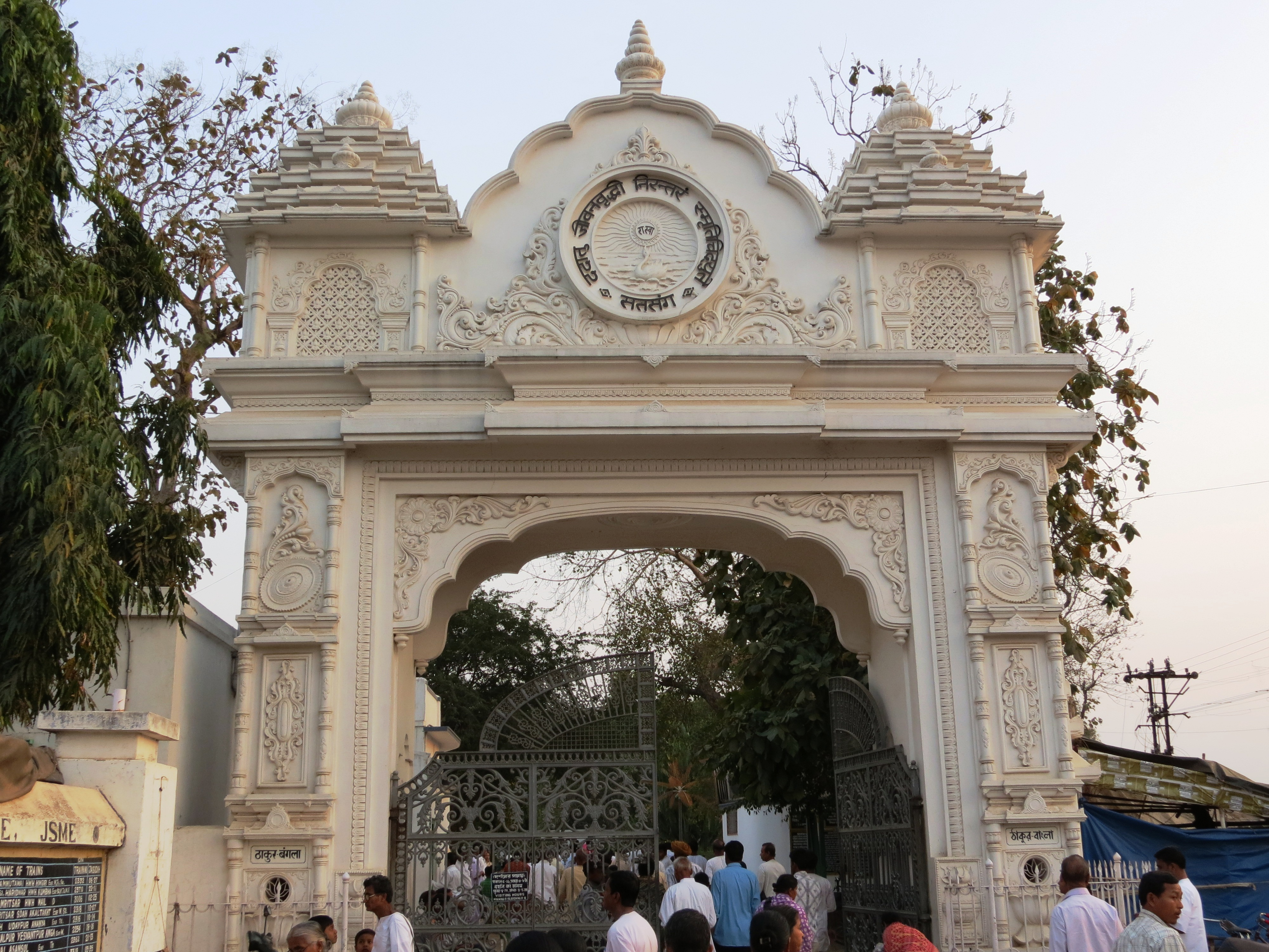 Main Gate of Satsang Ashram, Deoghar